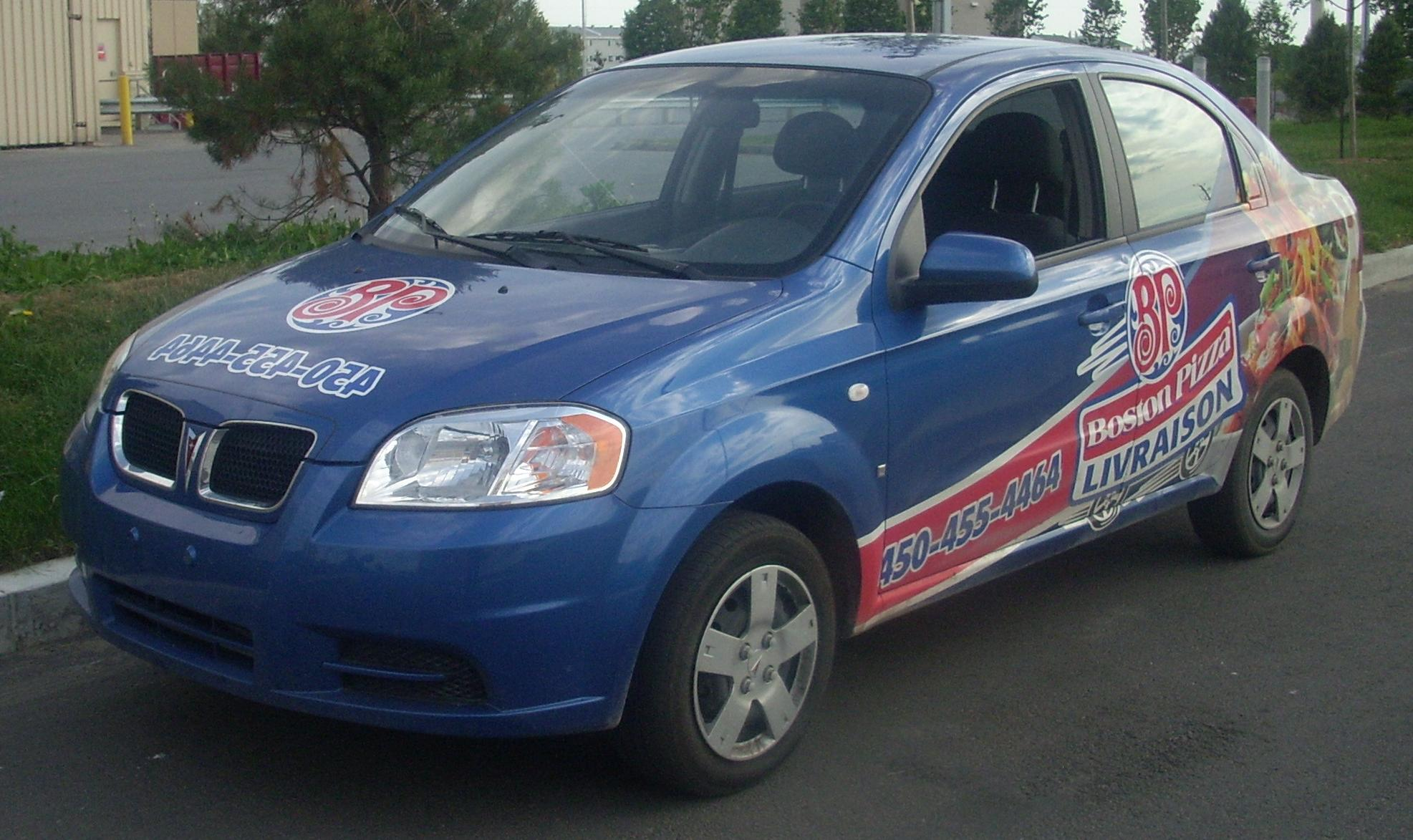 2007-present Pontiac Wave photographed in Vaudreuil-Dorion, Quebec, Canada.